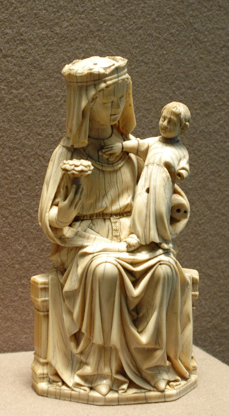 Virgin and Child, Paris